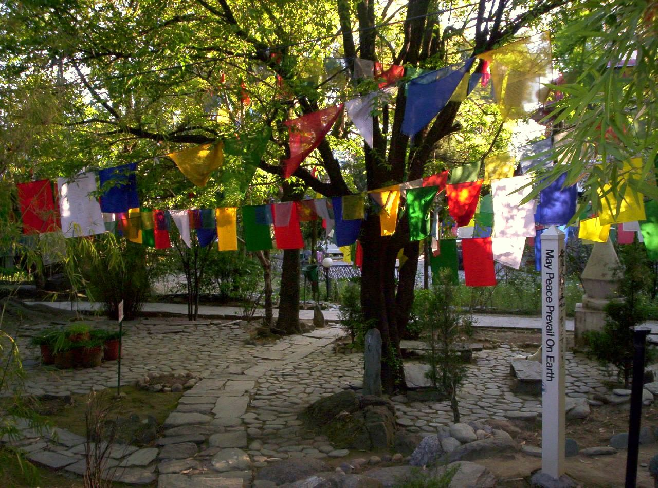 Tibetan prayer flags, Norbulingka Gardens, Norbulingka Institute, Sidhpur, Dharamsala